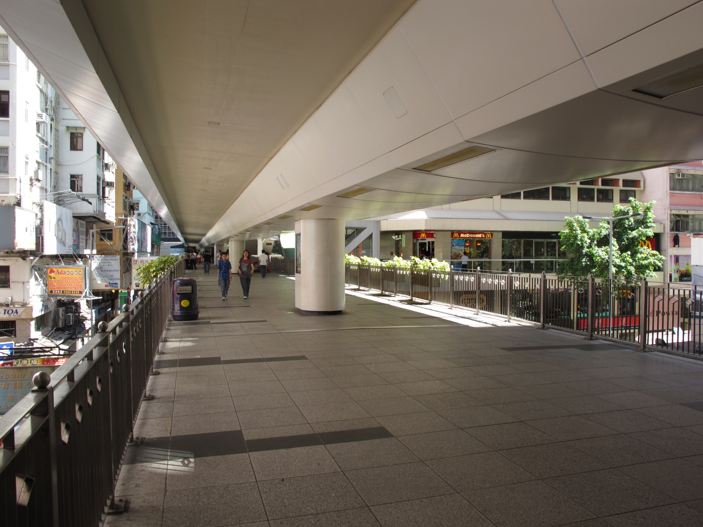 Wan Chai Footbridge